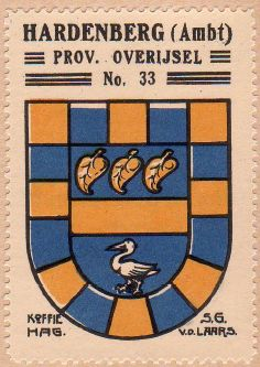 Coat of arms of Ambt Hardenberg (Netherlands)